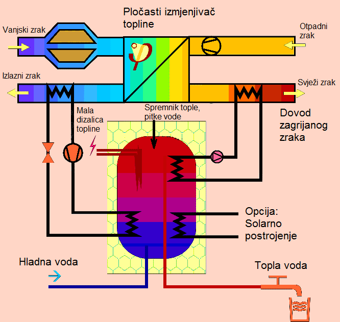 Passive house heating diagram, Croatian annotations